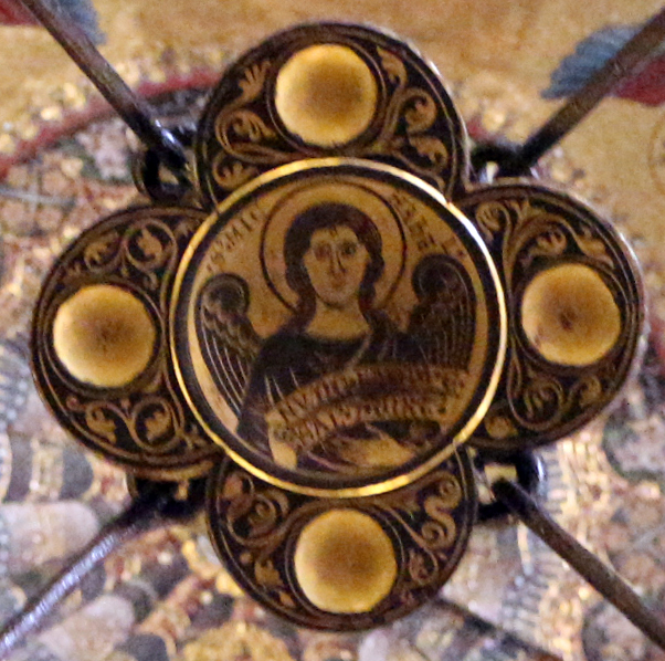 Barbarossaleuchter (Aachen)